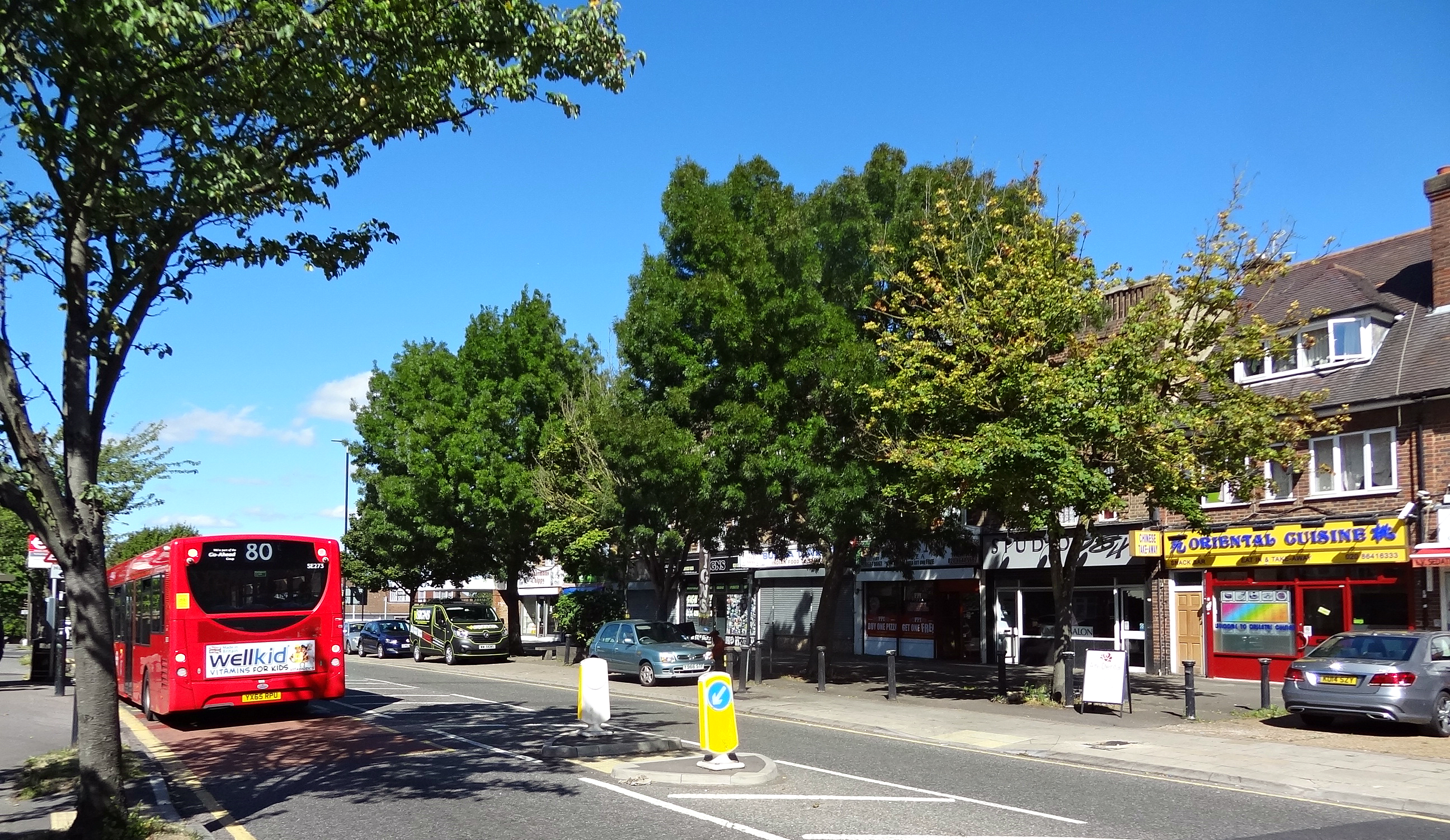 View of Sutton Common Road